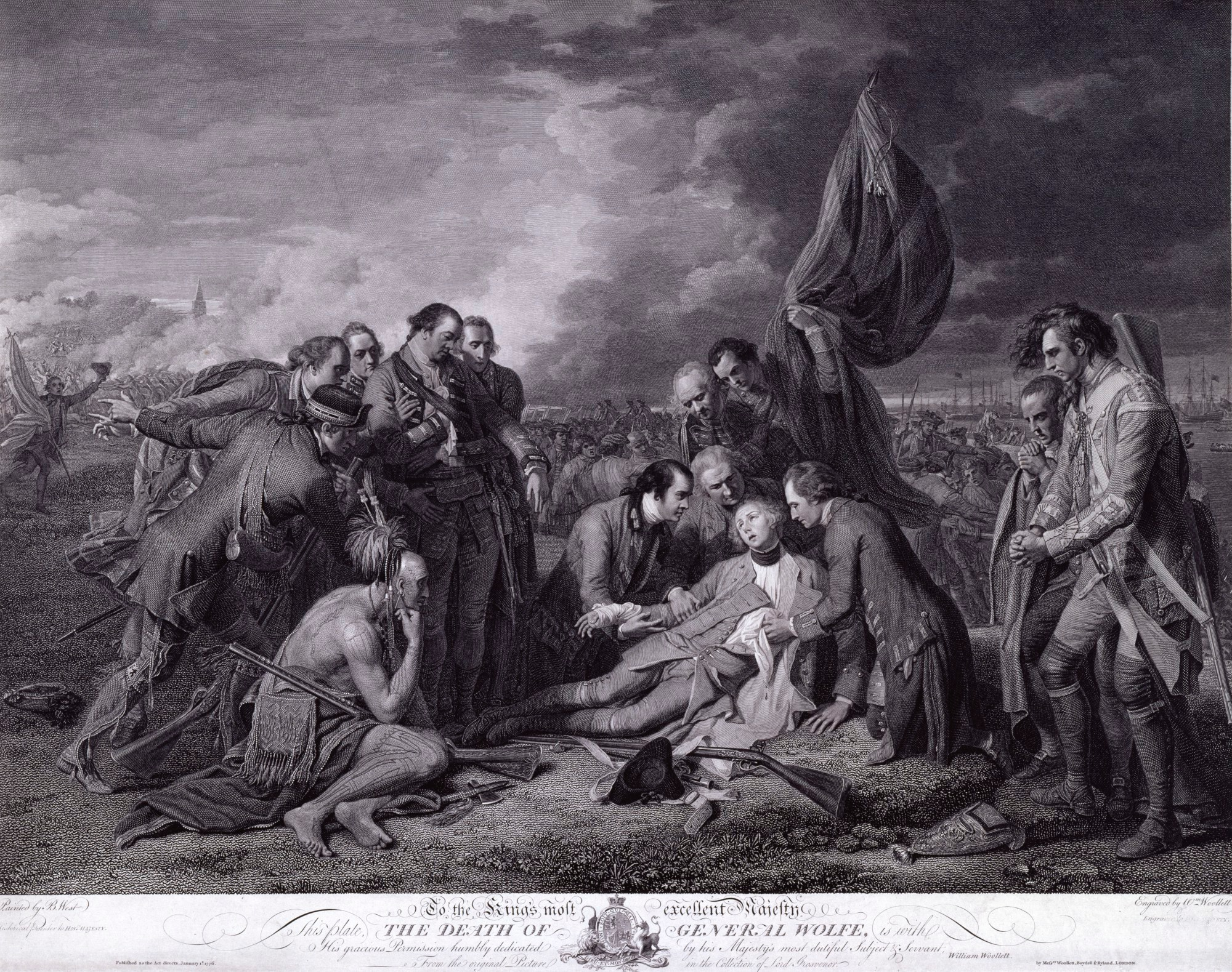 The Death of General Wolfe, line engraving by William Woollett after Benjamin West. Published in 1776 by John Boydell and William Wynne Ryland. Credit line: Royal Academy of Arts / Photographer credit: John Hammond